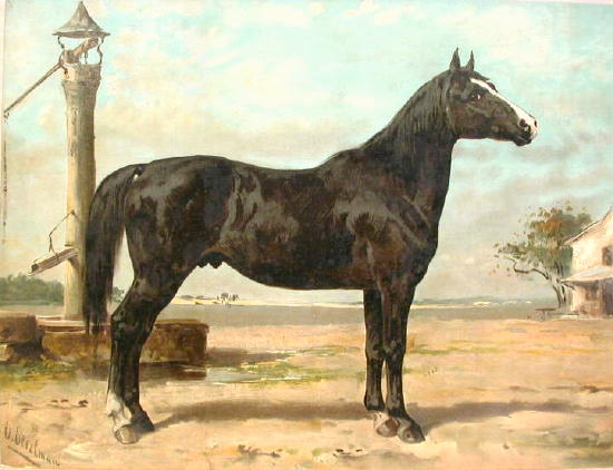 Hungarian horse, likely referring to Nonius breed